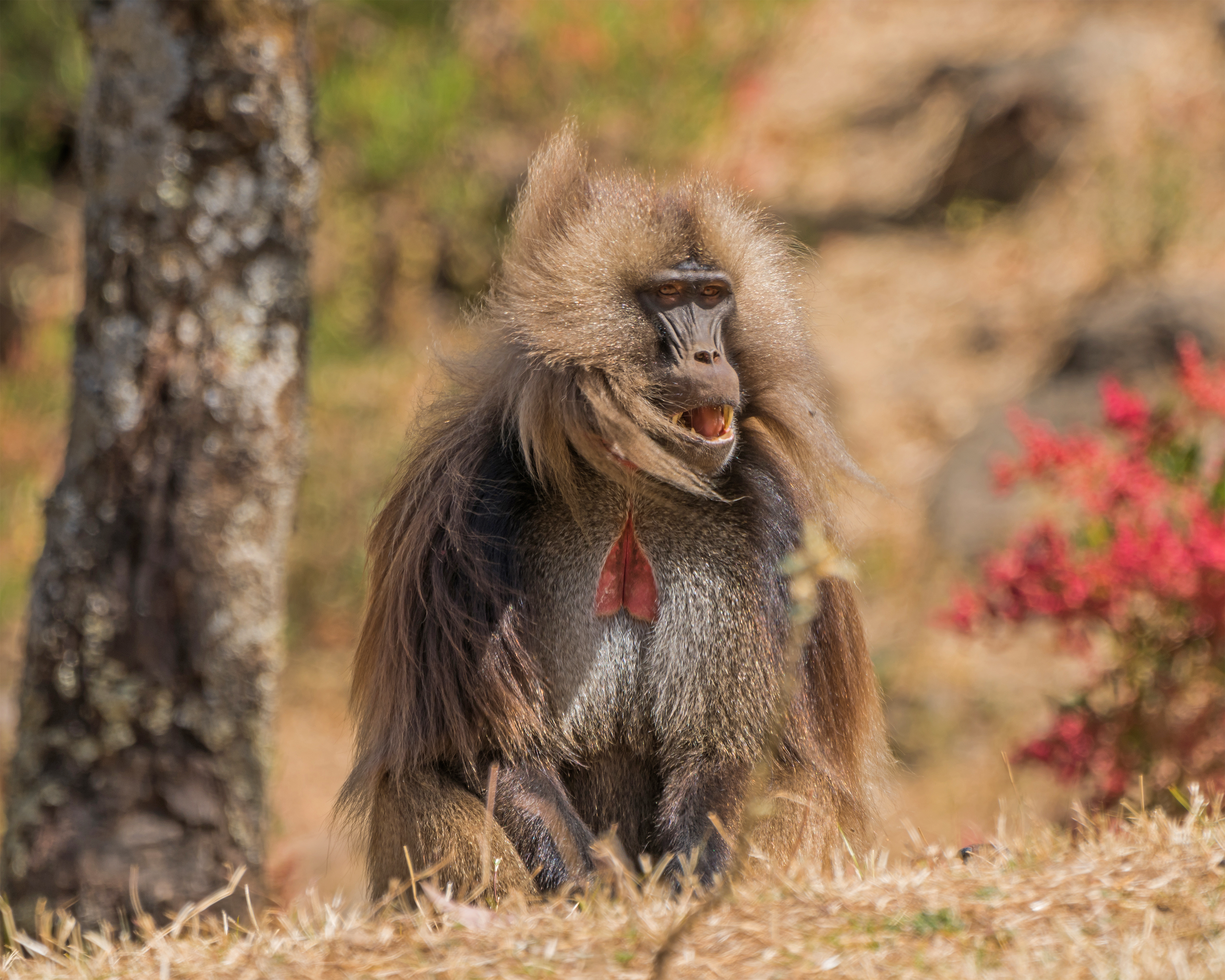 Gelada baboon at Wunenia near Gondar, Ethiopia